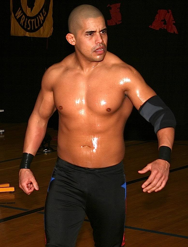 Photo for Ricky Reyes making his entrance at the JAPW 14th Anniversary Show in 2012